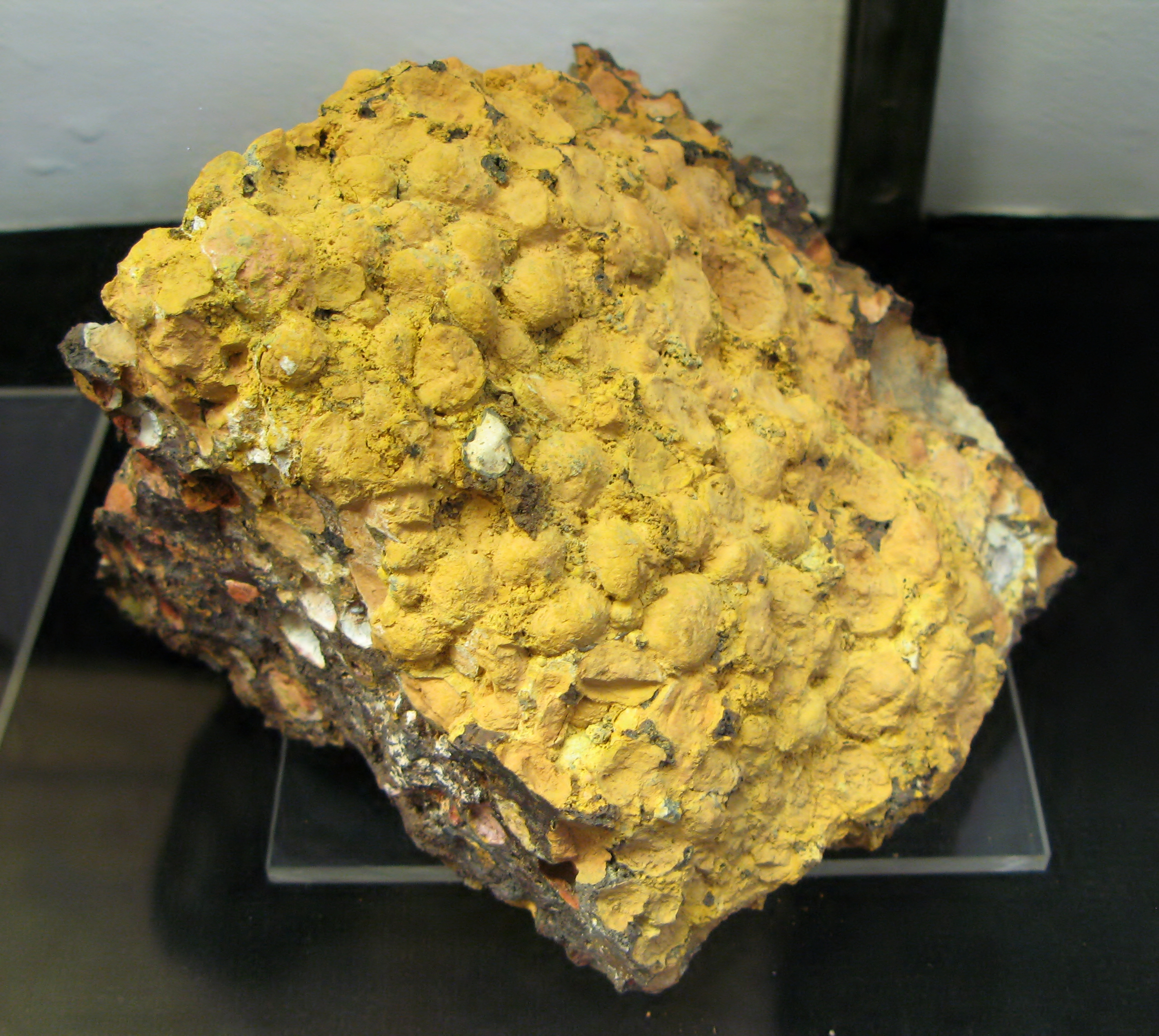 Pisolitic Bauxite - Locality: Krtole bei Petrovići, Montenegro - Exposed in the Mineralogical Museum, Bonn, Germany